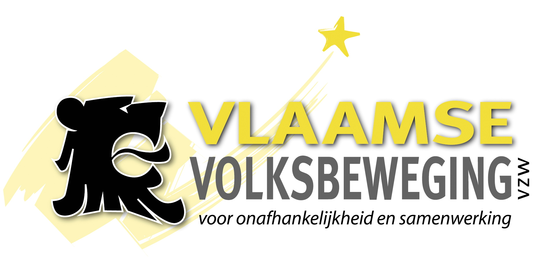 Logo of the Flemish People's Movement